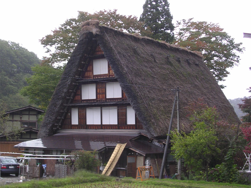 Shirakawago in Gifu Pref,Japan. Shirakawago include Japanese World Heritage site Historic Villages of Shirakawa-go and Gokayama.